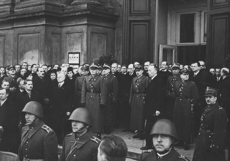 Walery Sławek's funeral - Edward Rydz-Śmigły visible